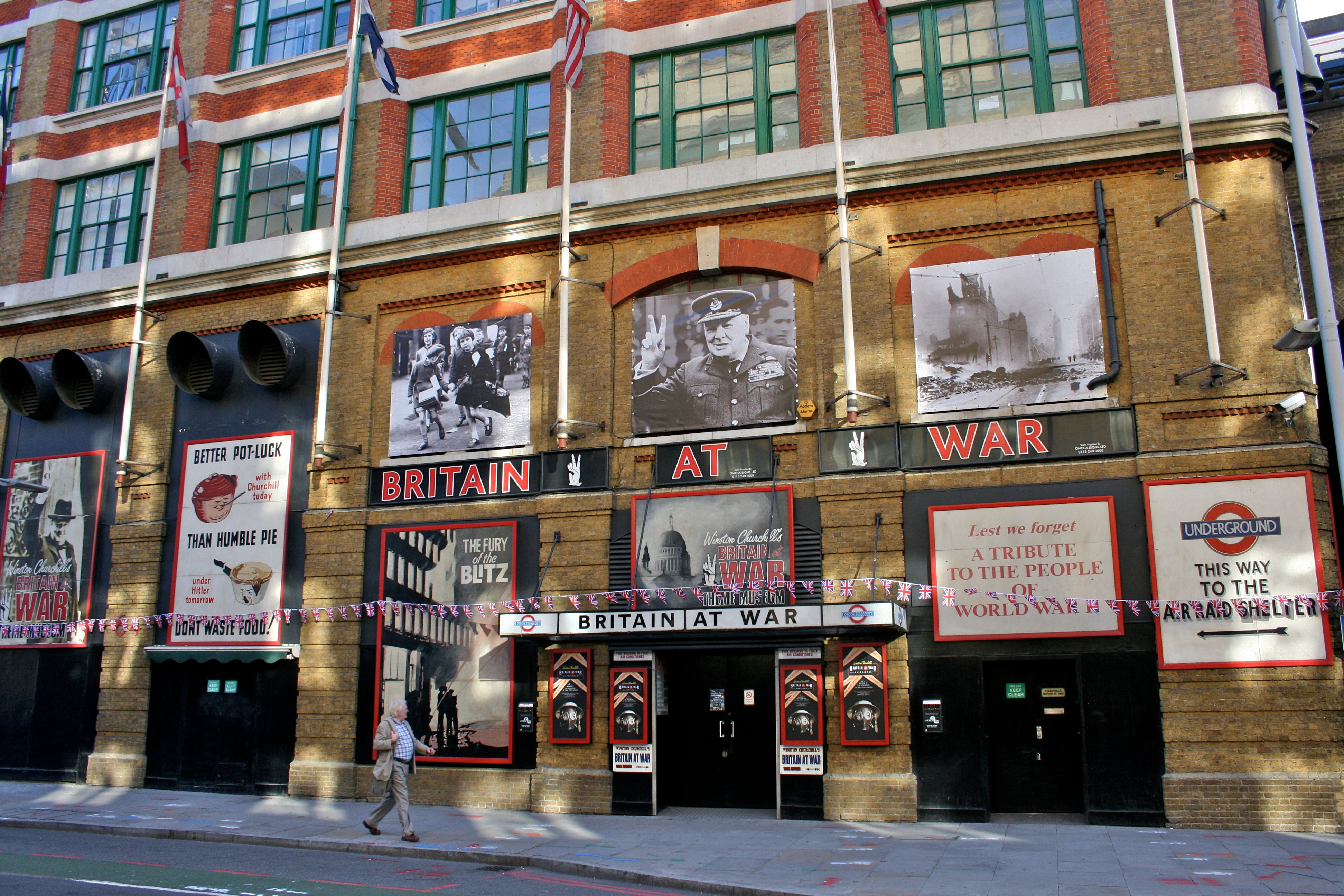 Britain at War Experience, near London Bridge, London